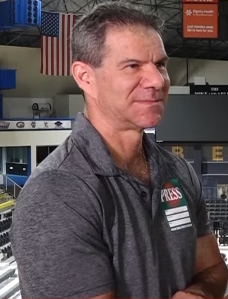 Dave Meltzer during an appearance on NJPW World's Post Game Show